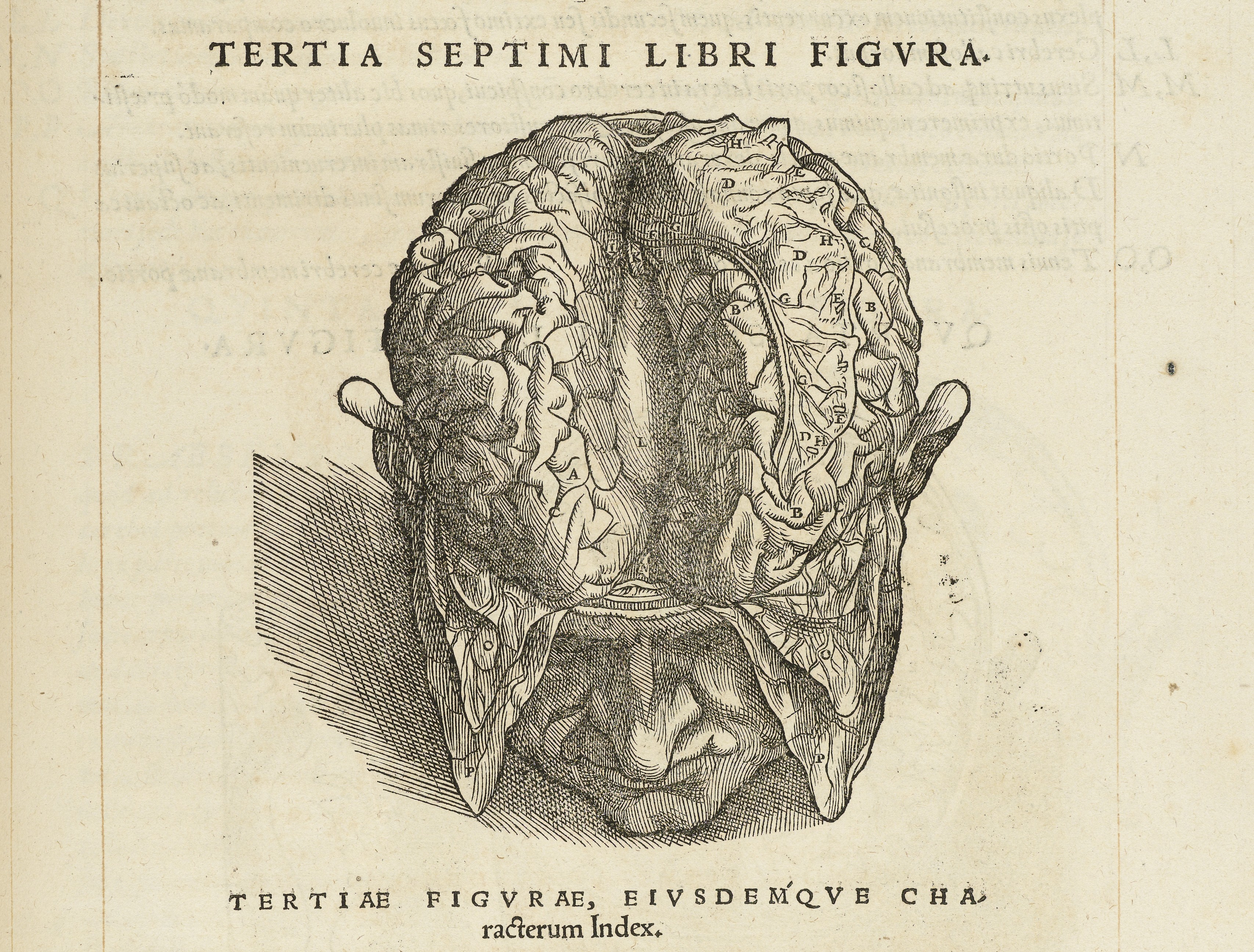 De humani corporis fabrica libri septem Figure of the brain with both membranes stripped off Rare Books